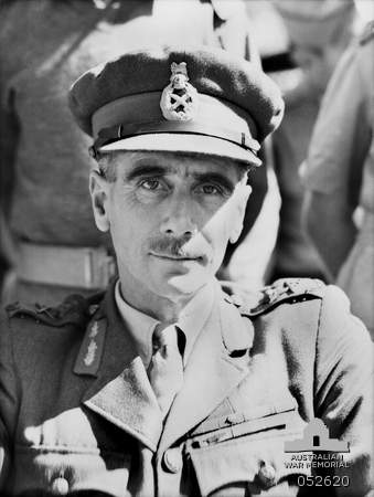 Major General George Alan Vasey